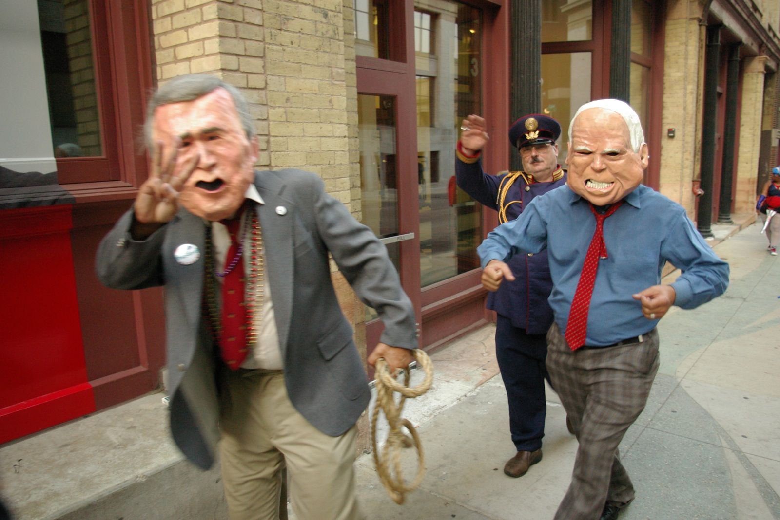 Masks of George W. Bush and John McCain at the w:2008 Republican National Convention in Saint Paul, Minnesota